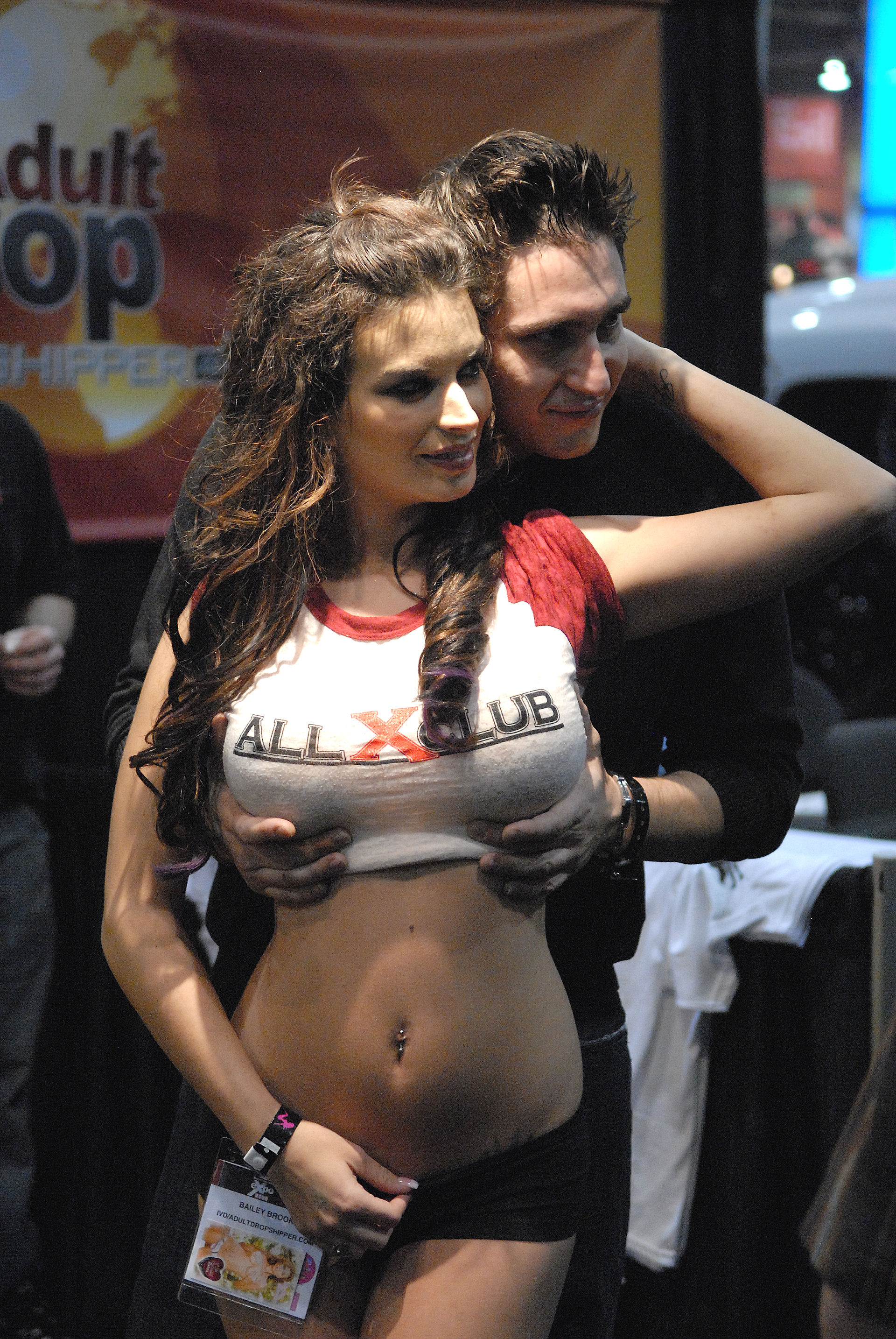 Bailey Brooks and fan at AVN Adult Entertainment Expo 2009 in Las Vegas